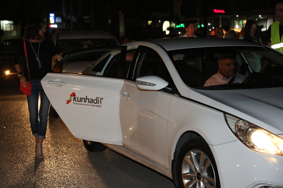 Guest arriving to Taxi Night in a Taxi